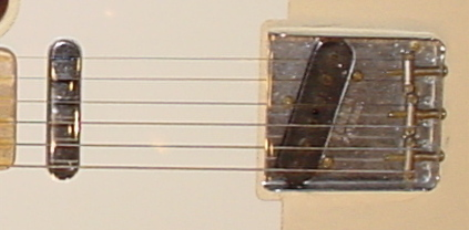 Single-single electric guitar pickup configuration, illustrated on Fender '55 Telecaster/Pro Jr.Set